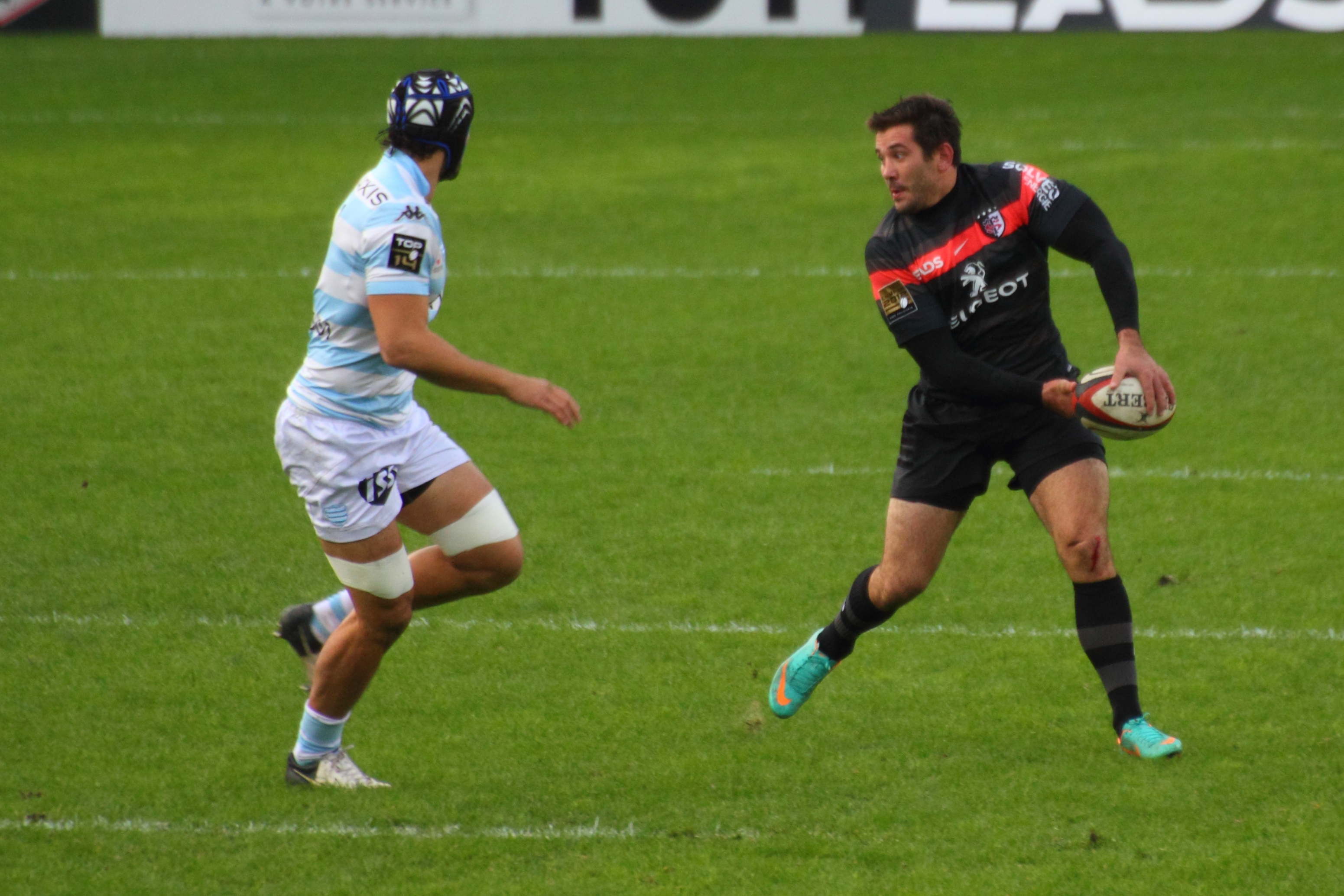 Top 14 — 1 November 2012, Stade Ernest-Wallon. Match between: Stade toulousain — Racing Métro 92